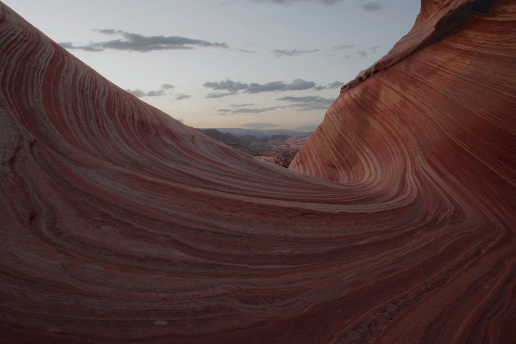 The Wave at evening twilight, Paria Canyon-Vermilion Cliffs Wilderness, Arizona, USA